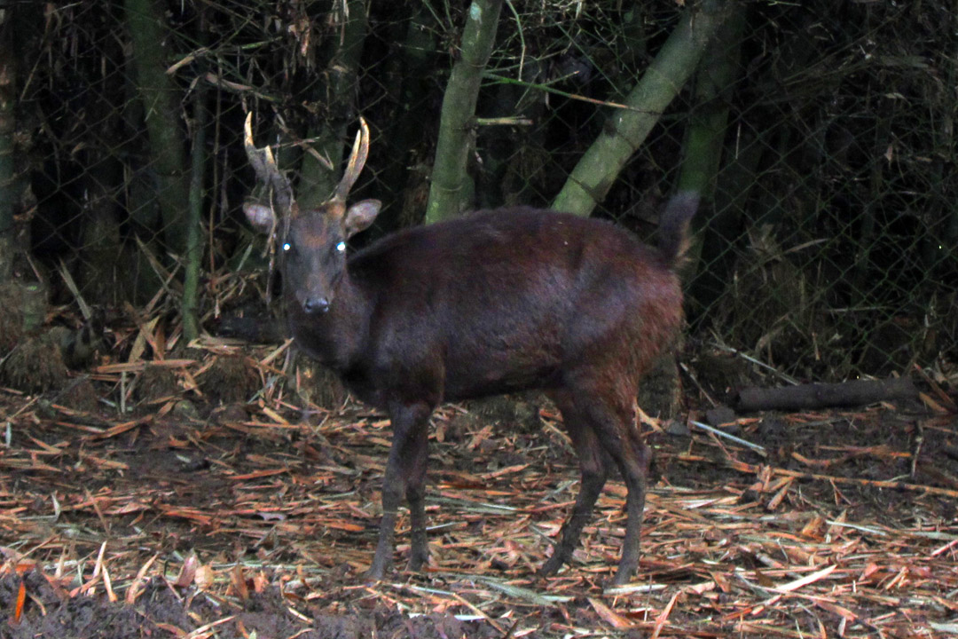 A male Rusa marianna (formerly Cervus mariannus), the endangered Philippine deer found on the outskirts of Davao. Photographed by Gregg Yan.Tagalog: Isang lalaking Rusa marianna, isang uri ng usa na nakikita lamang sa Pilipinas. Itong usang ito ay nakita sa Davao.